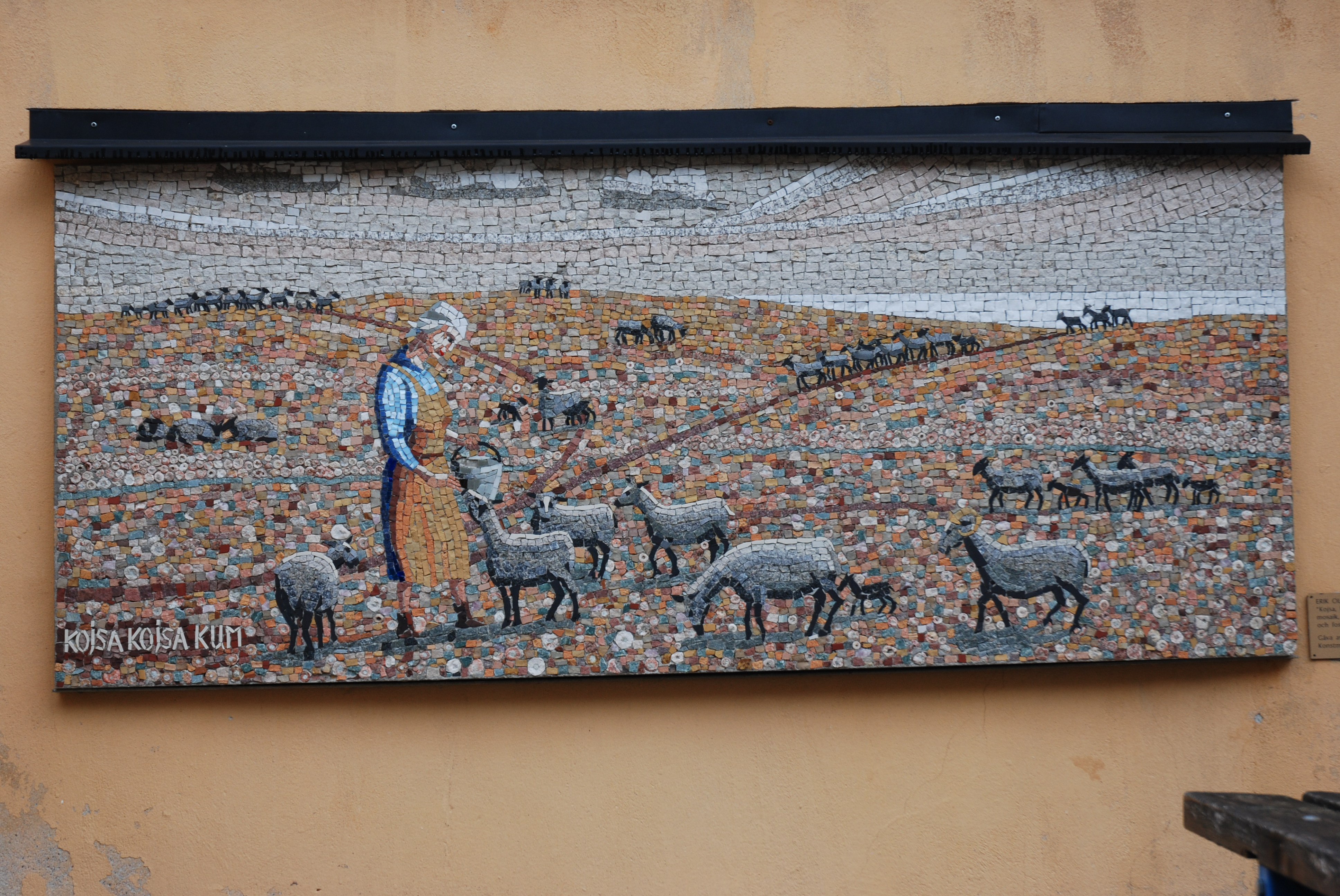 Kojsa kojsa kum. mosaic mainly of natural stones and fosiles, by Erik Olsson 1990, at the wall of Gotlands Konstmuseum. Visby. Sweden